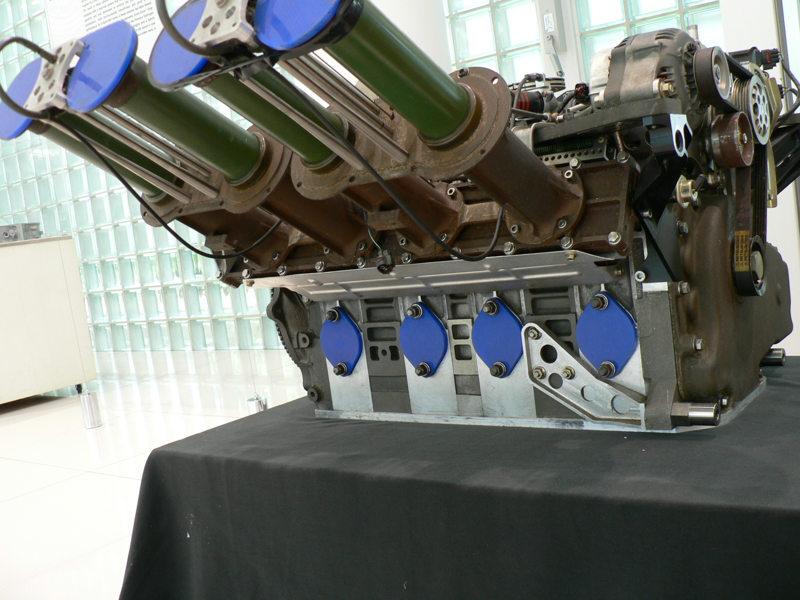 MAZDA R26B engine